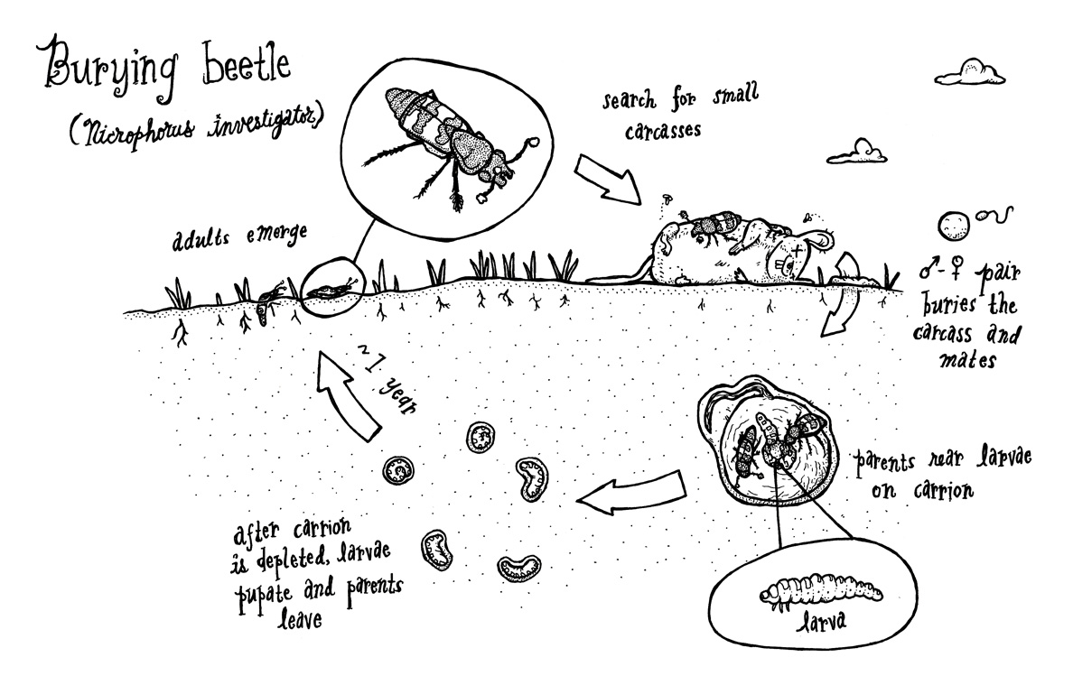 burying beetle life cycle